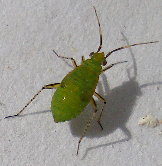 Plagiognathus arbustorum Nymph On: Nettles Location: Lincoln City Site: Boultham Park